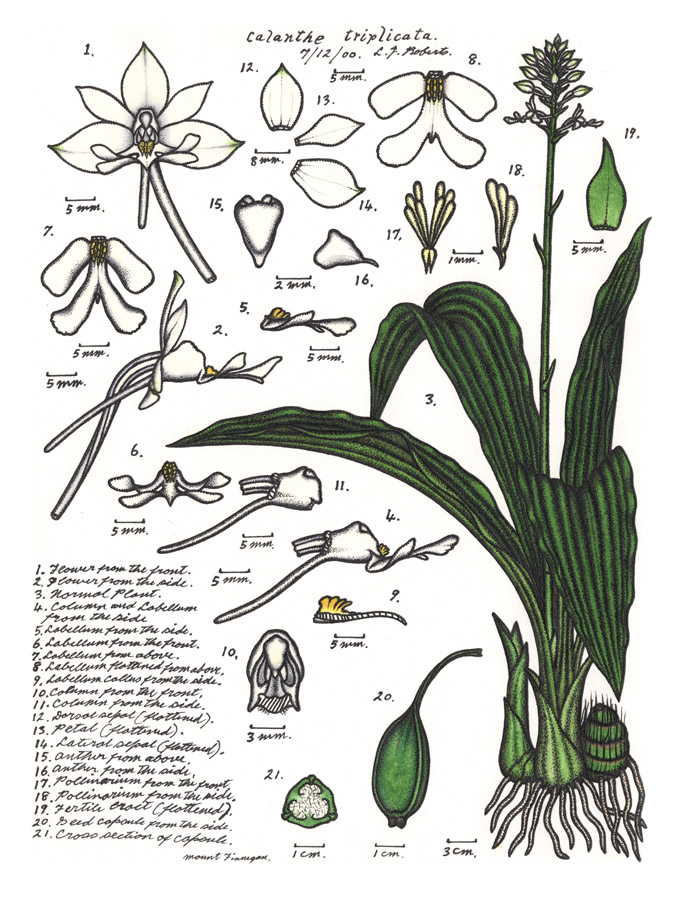 This image is one of a series by Lewis Roberts